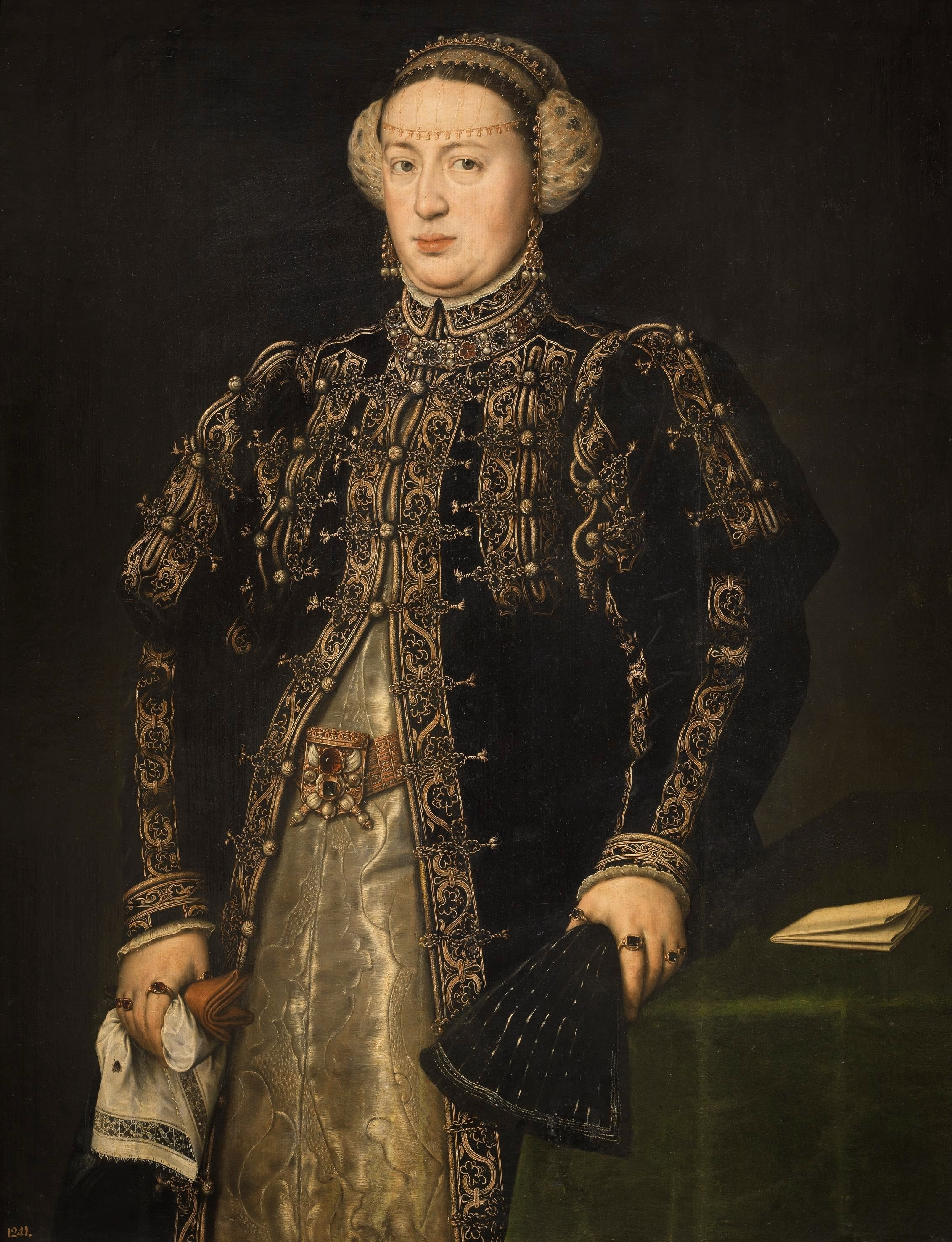 Catherine of Austria, Queen of Portugal, daughter of King Felipe I of Spain, and Infanta Juana of Spain (Juana la Loca), wife of King João III of Portugual, mother of Prince João Manuel of Portgual.